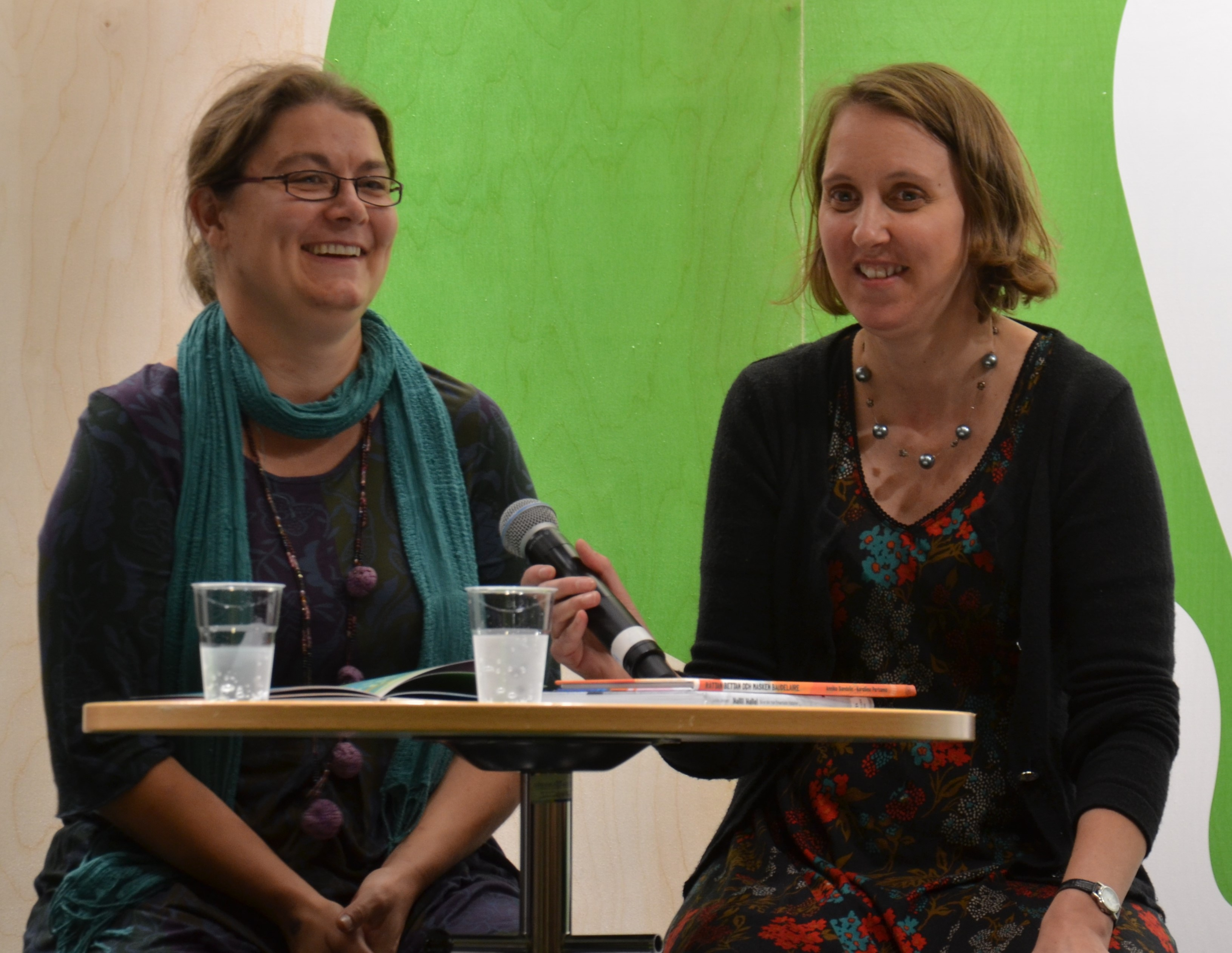 Karoliina Pertamo och Annika Sandelin på Bokmässan i Göteborg 2014